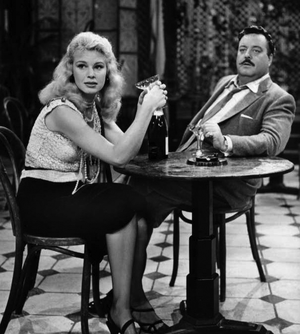 Photo of Betsy Palmer and Jackie Gleason from the Playhouse 90 presentation of the play, "The Time of Your Life".